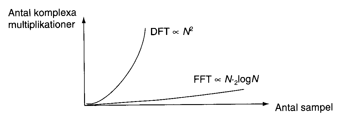 beräkningar fft